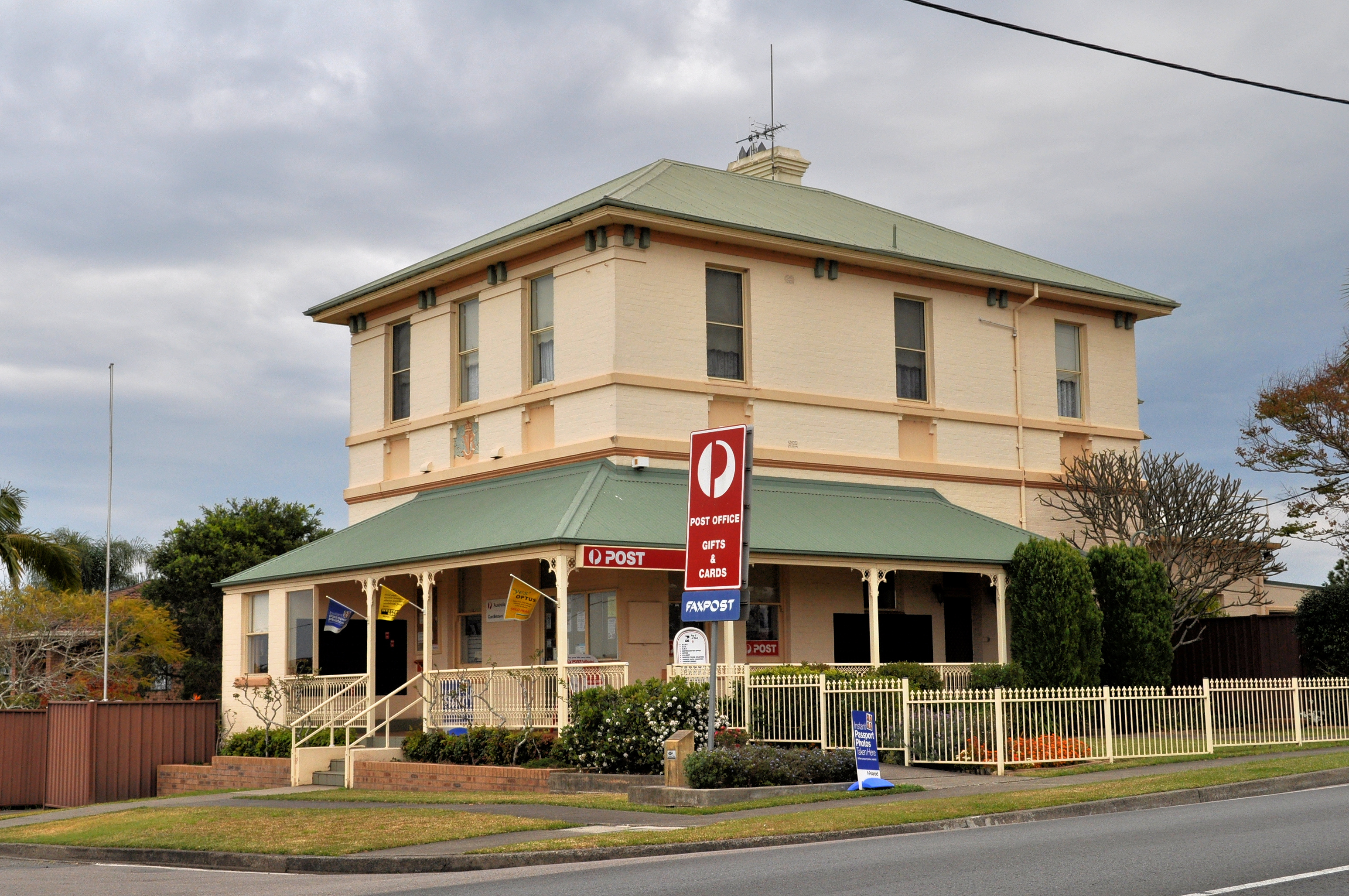 Post Office building at Cundletown NSW, near Taree